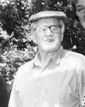 Pycture of Mr. David Stirling